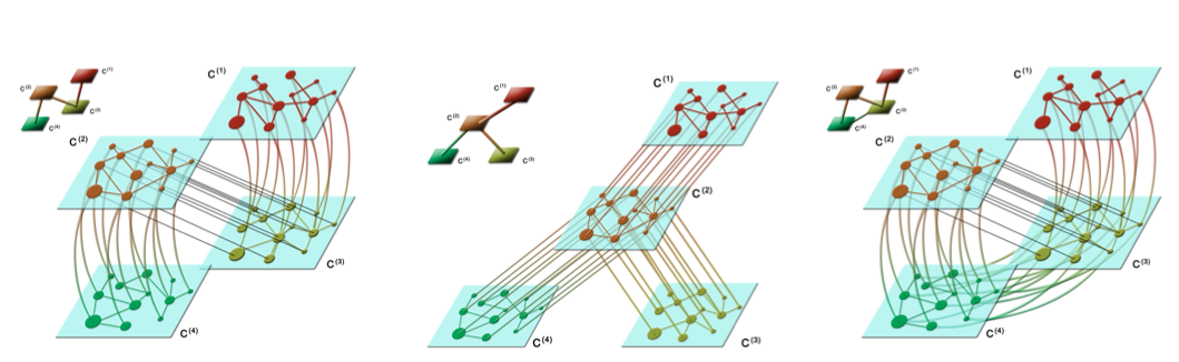 Three different multilayer networks with different structure in the network of layers.